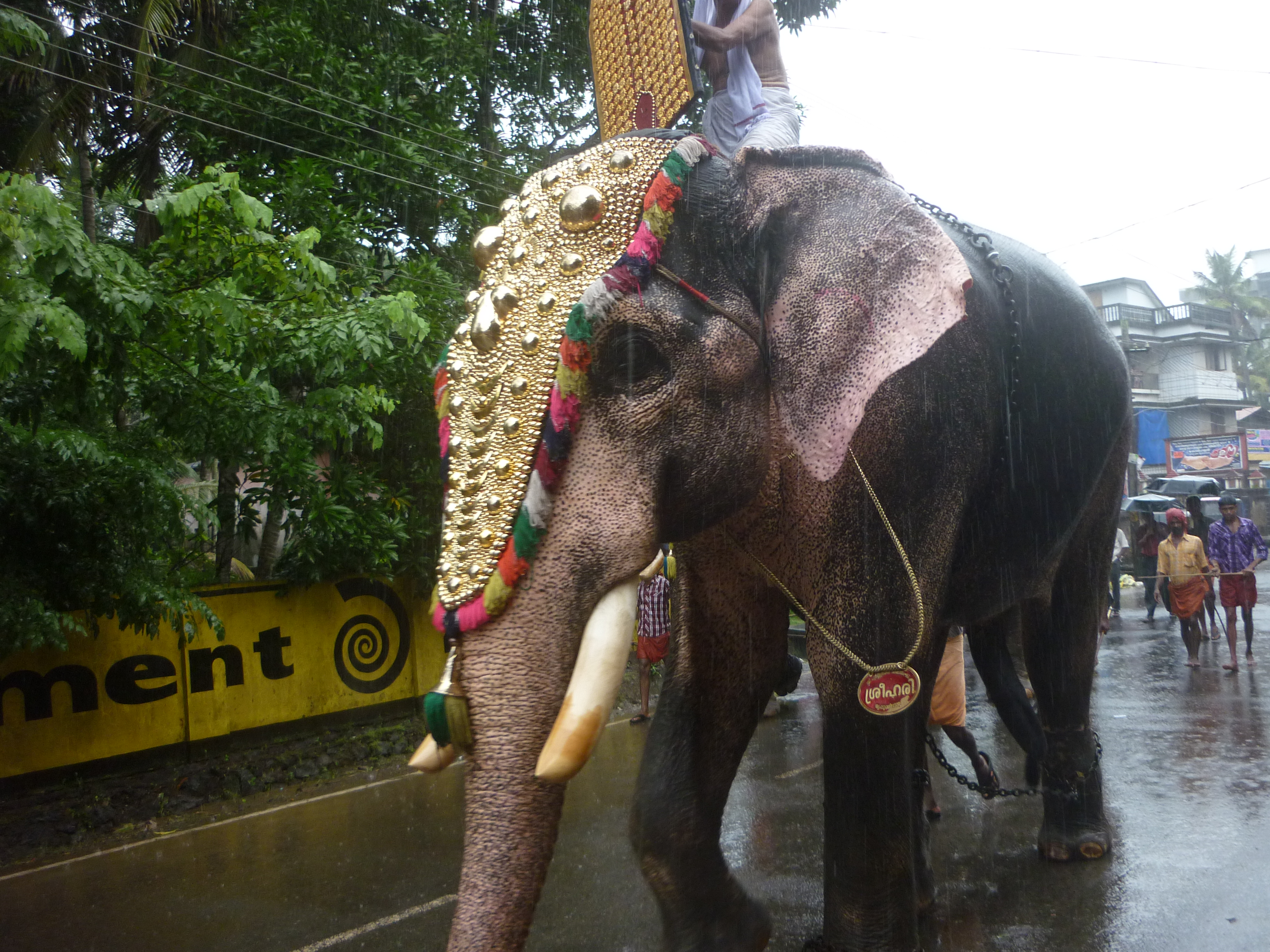 Elephant in Athachamayam Festival